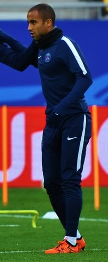 Lucas Rodrigues Moura da Silva